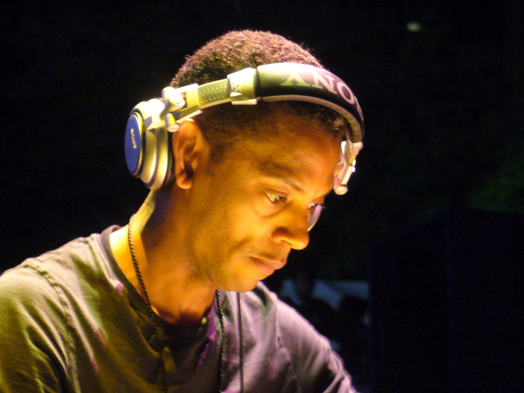 Jeff Mills